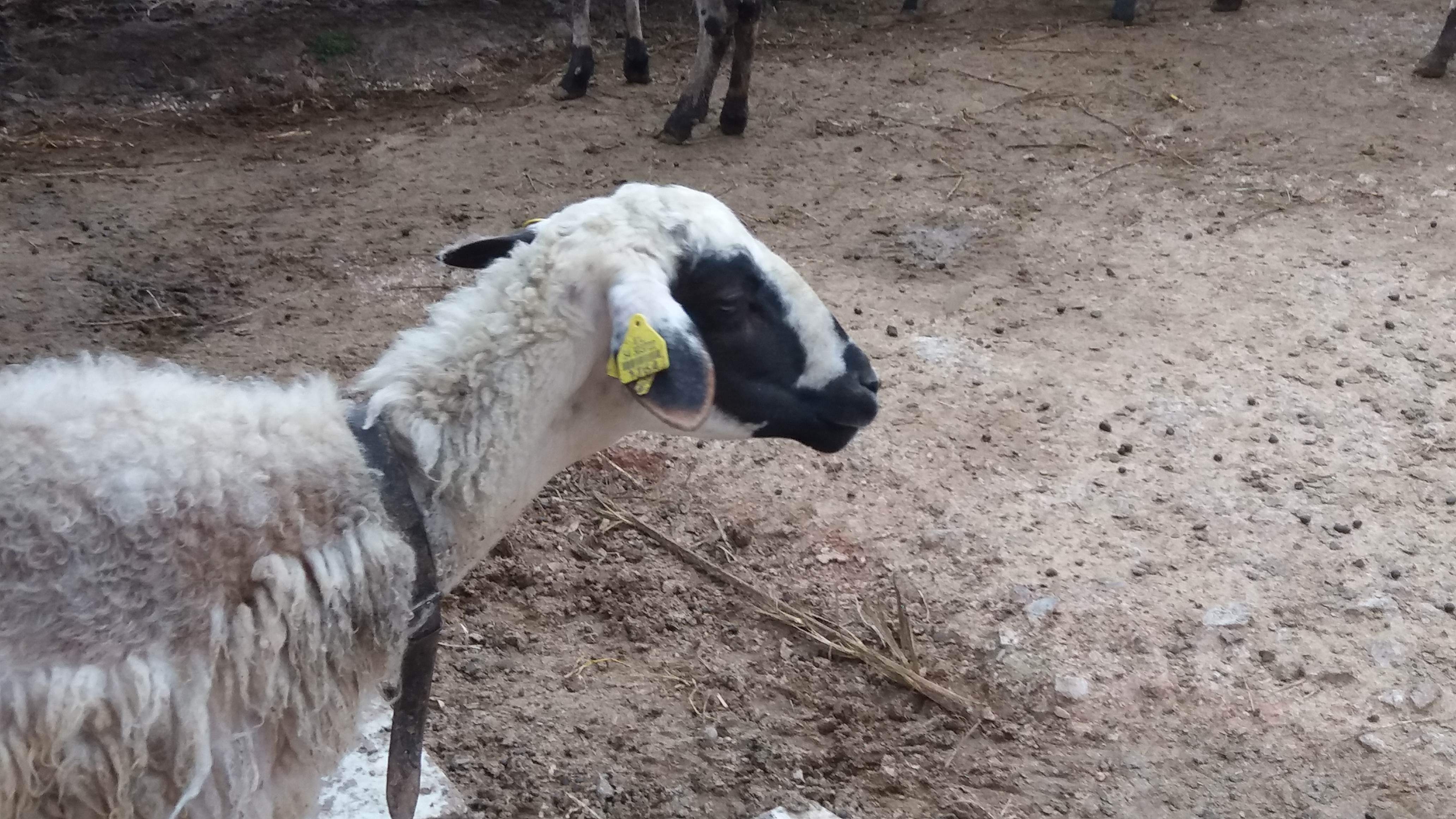 Female Chios sheep at the Agricultural University of Athens